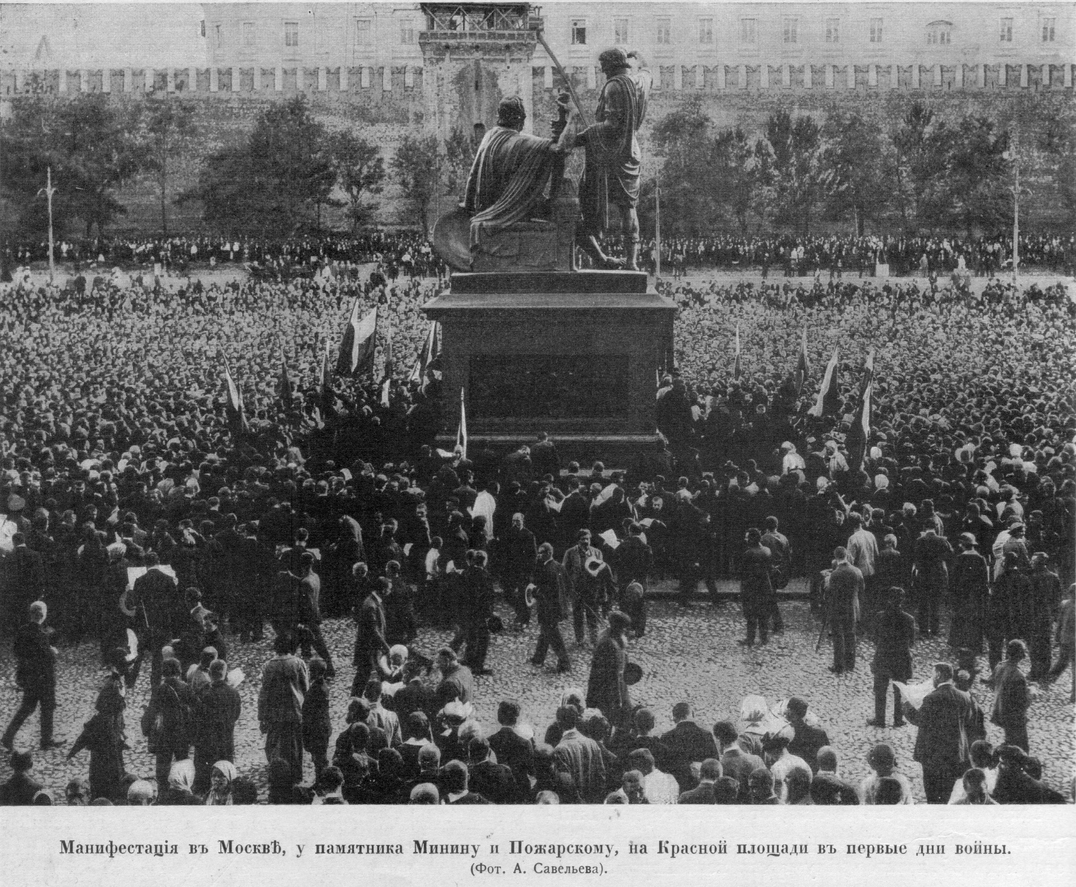 Patriotic manifestation in Moscow on the Red Square, near the monument to Minin and Pozharsky, in first days of WWI.